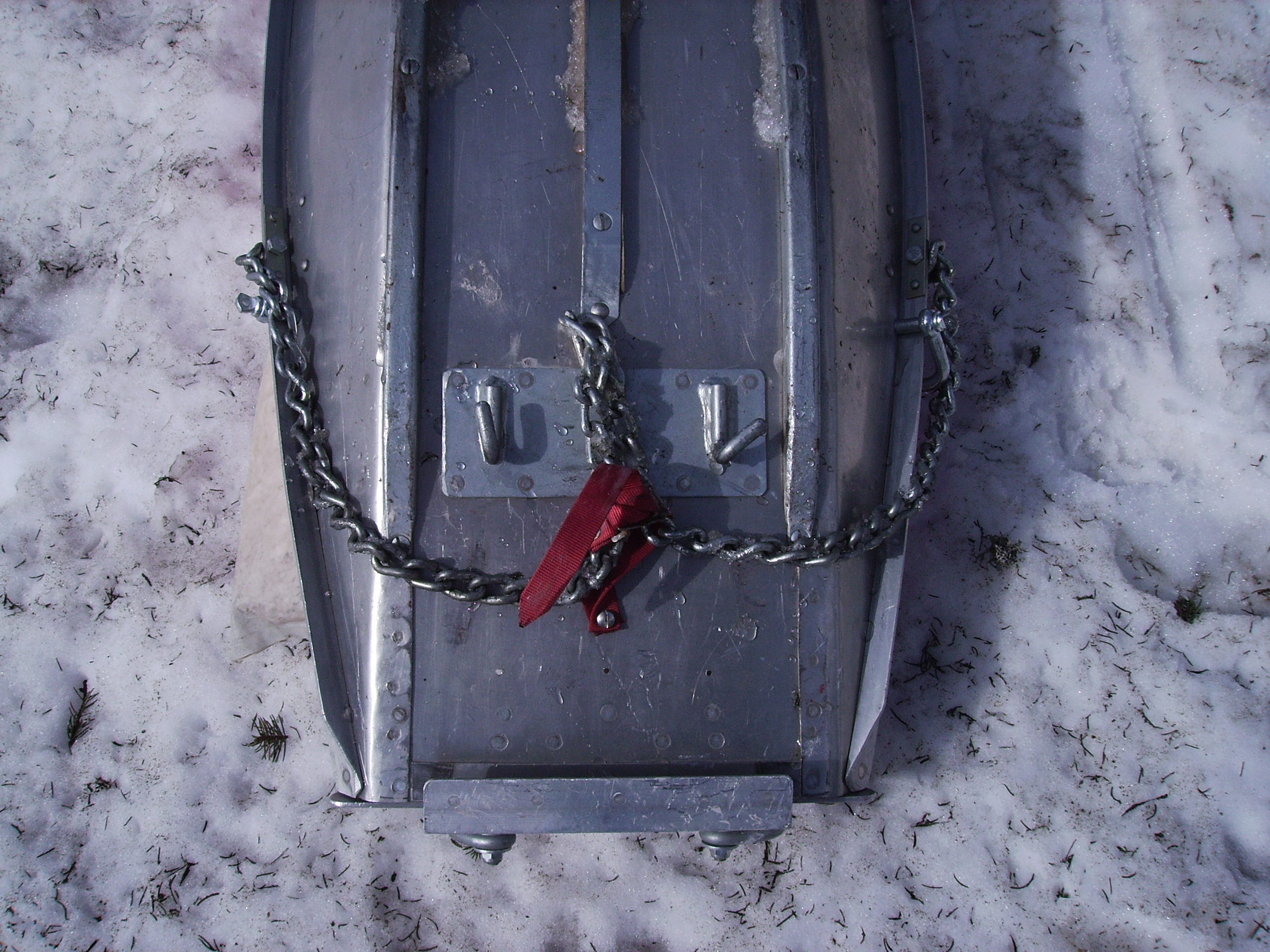 Unterseite eines Akias mit Bremskette mountain rescue sledge (Akia) with brake-chain on bottom side